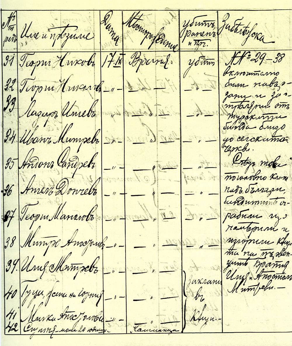 Vranya Murders 1906